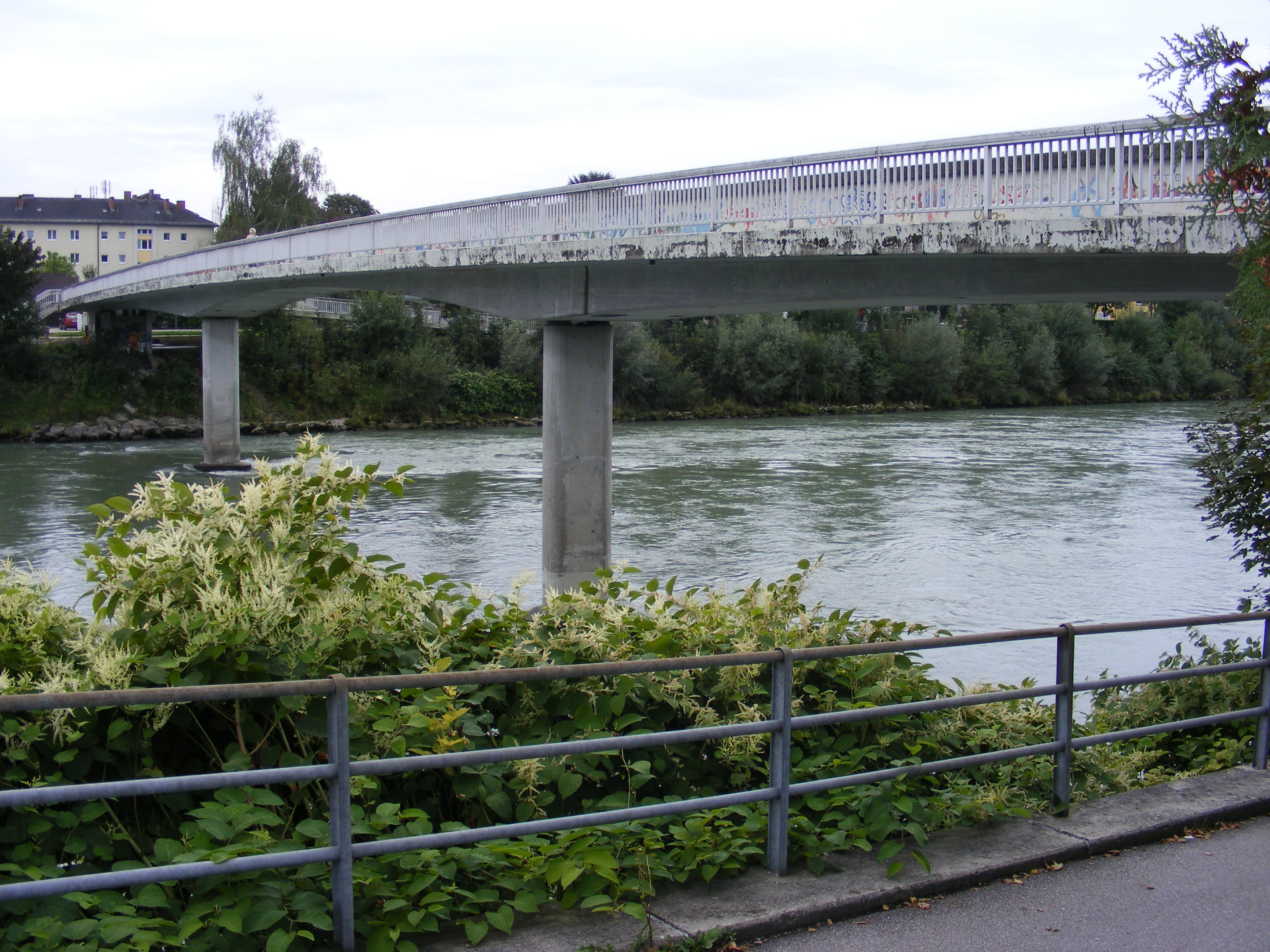 Footbridge „trail bridge“, City of Salzburg